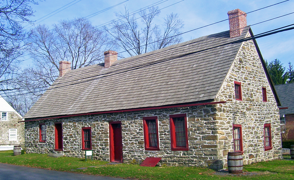 Photographed by Daniel Case 2006-11-27